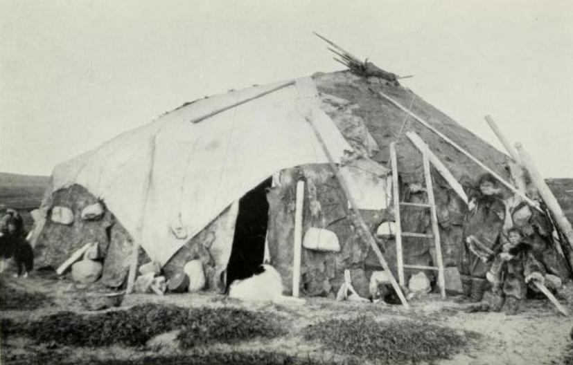 A Yaranga at Uelen, Chukotka, Russia, 1913.